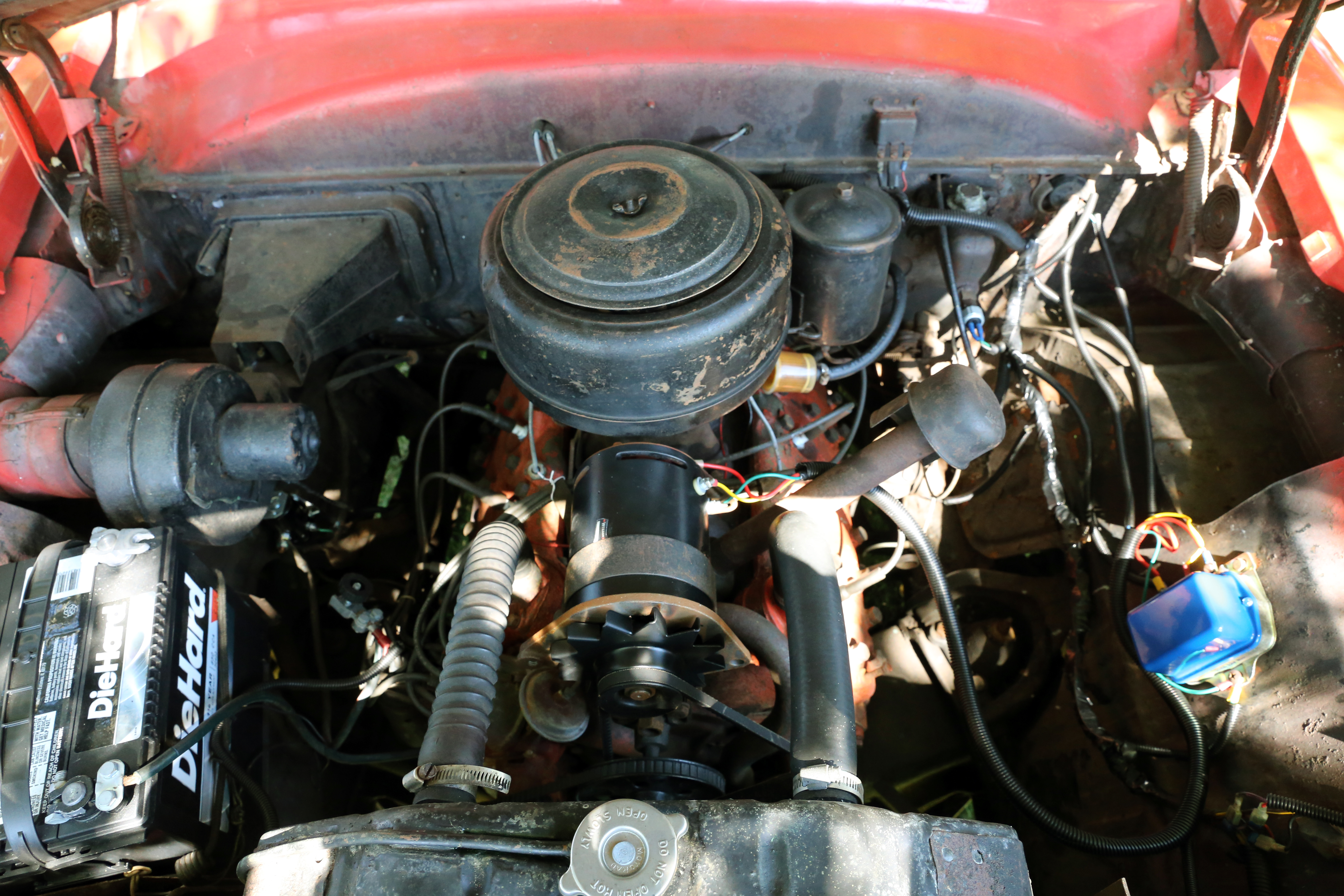 The Ford V8-B3 flathead V8 engine in a 1953 Ford Crestline Sunliner at a classic car show in Water Mill, NY. Dirty but honest. 110hp and FordMatic auto transmission.